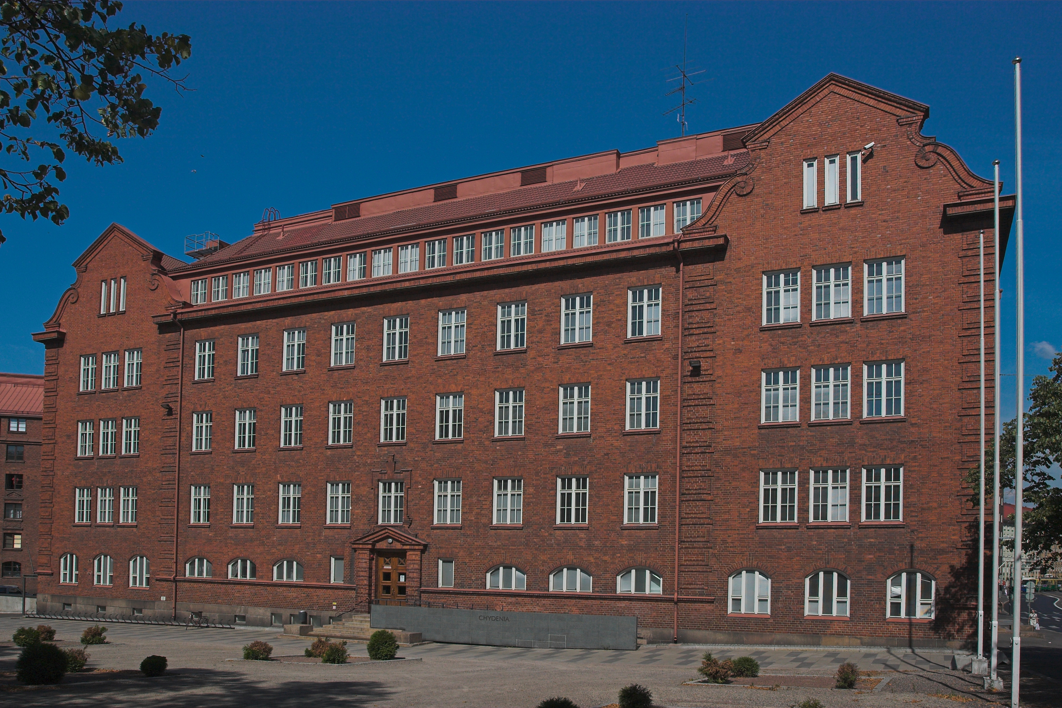 Chydenia, the library of Helsinki School of Economics, in Töölö, Helsinki, Finland